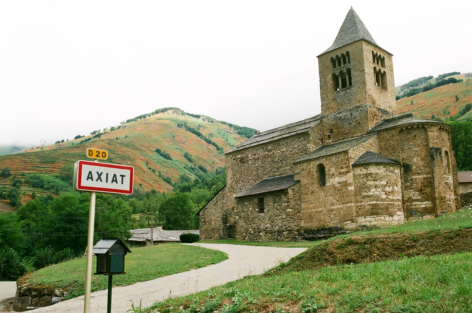 Roman Church of Saint Julien in Axiat